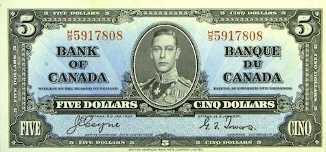 Face of 1937 Bank of Canada $5